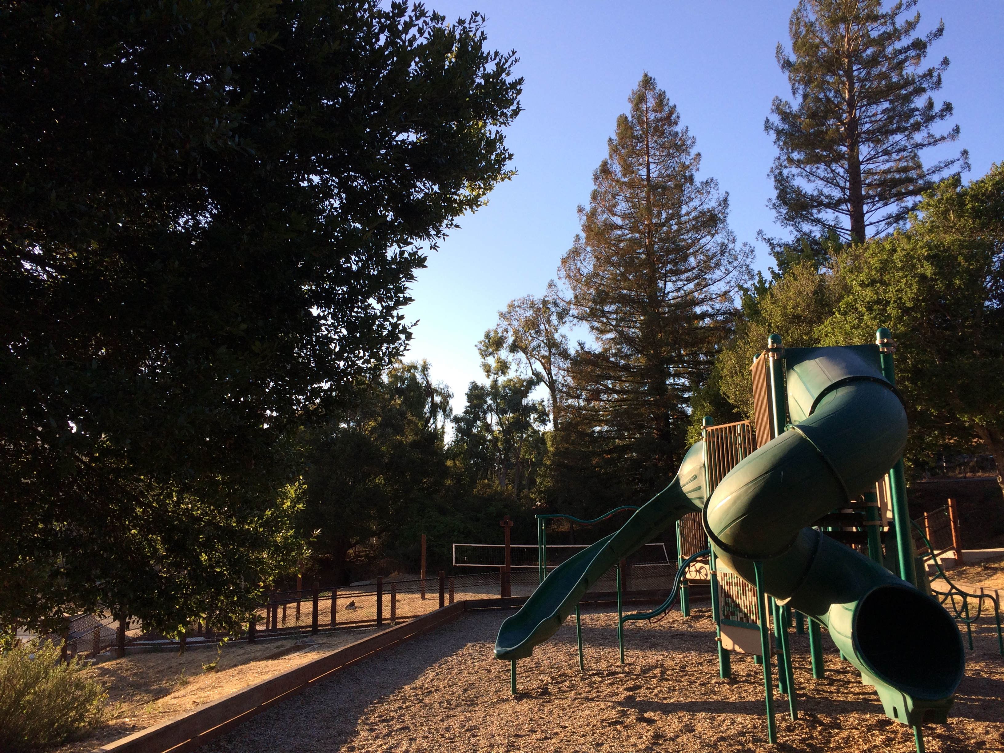 La Honda Playground, with slides.